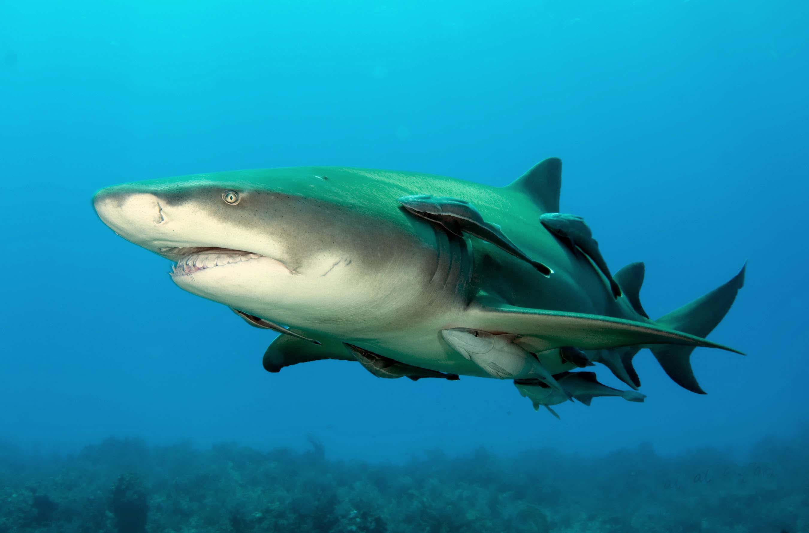 Lemonshark (Negaprion brevirostris)